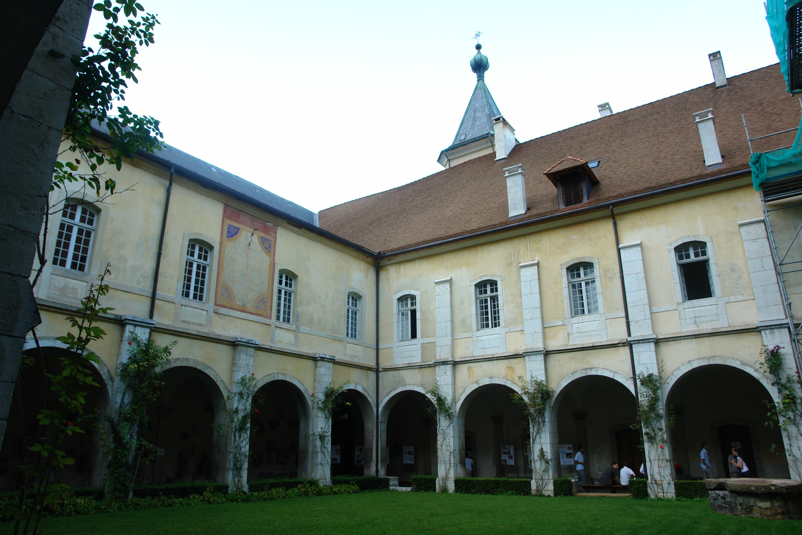 Hautecombe Abbey cloister, Savoie, France.